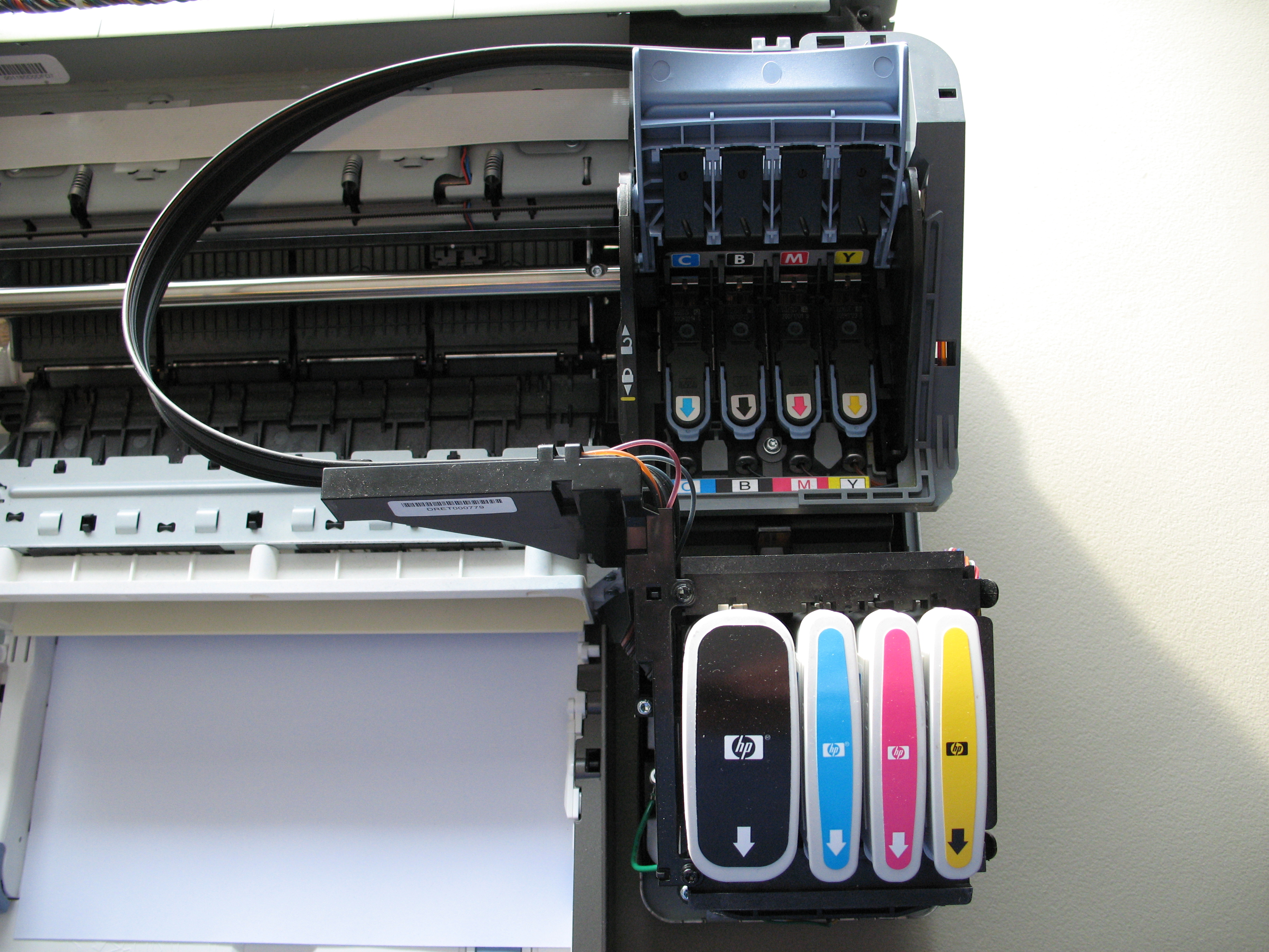 HP Business Inkjet 1200n - Continuous Ink System - Printhead cover open